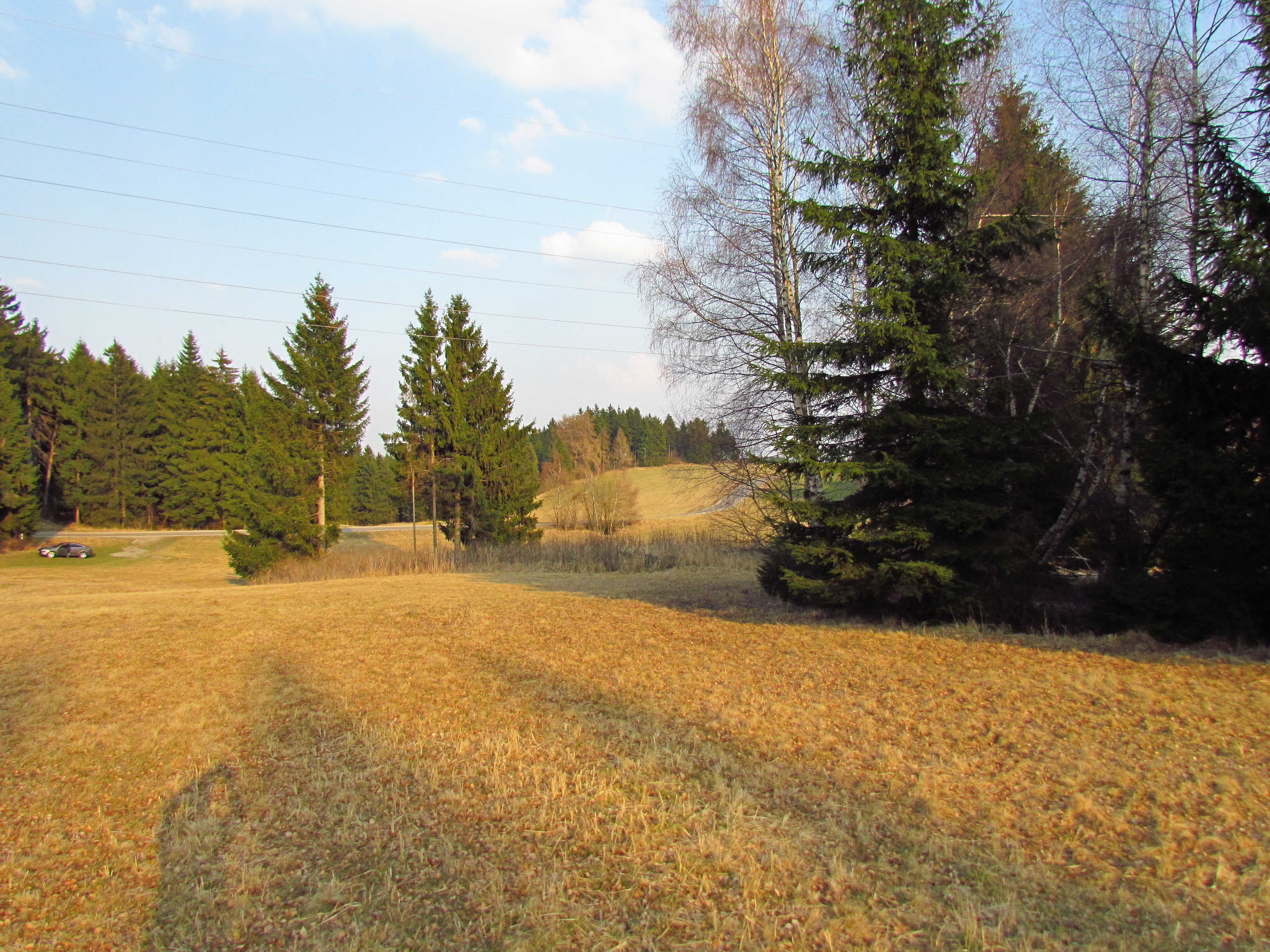 Overview of natural monument Kamenný vrch, Třebíč District, Czech republic.